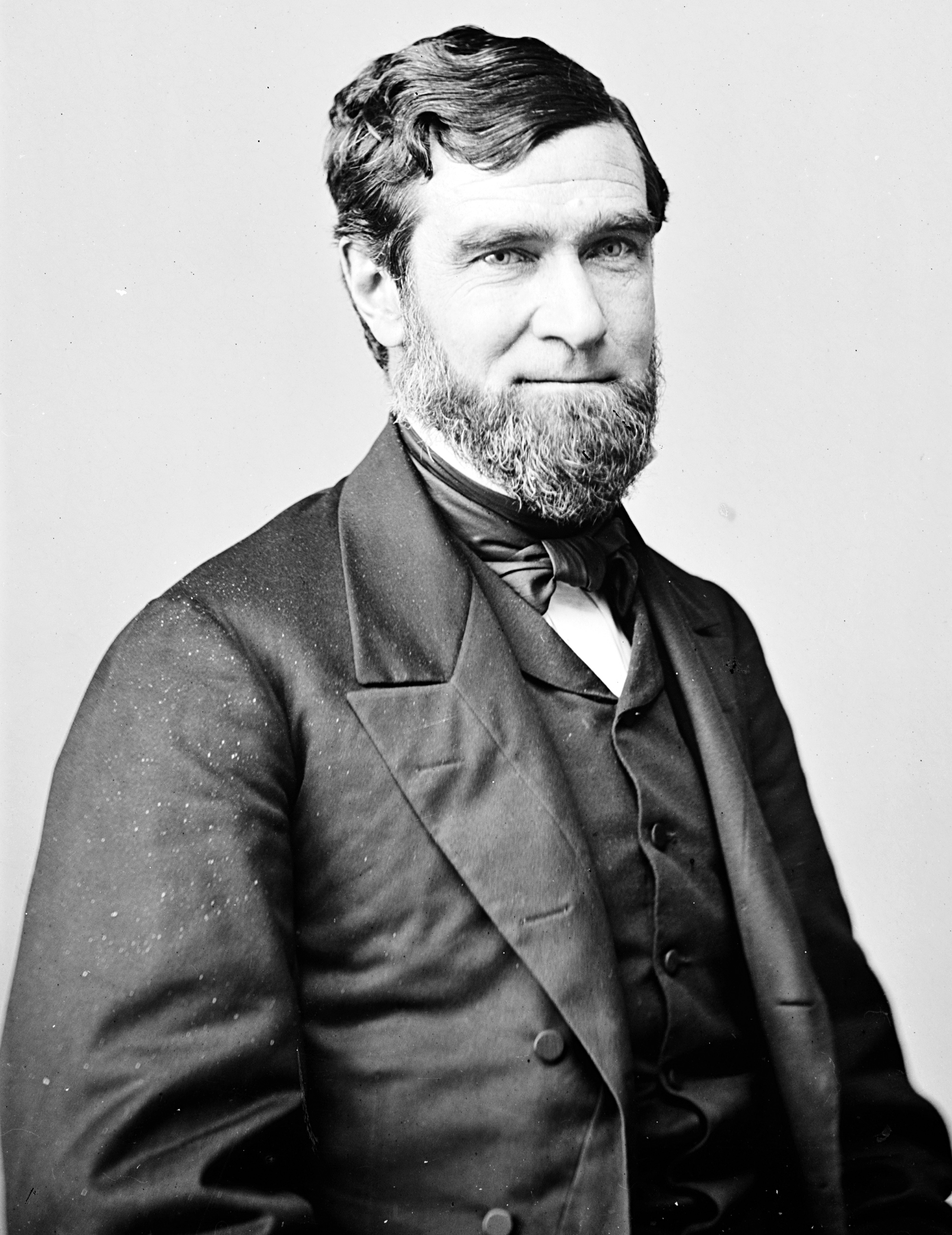 John Guier Scott, US Representative from Missouri